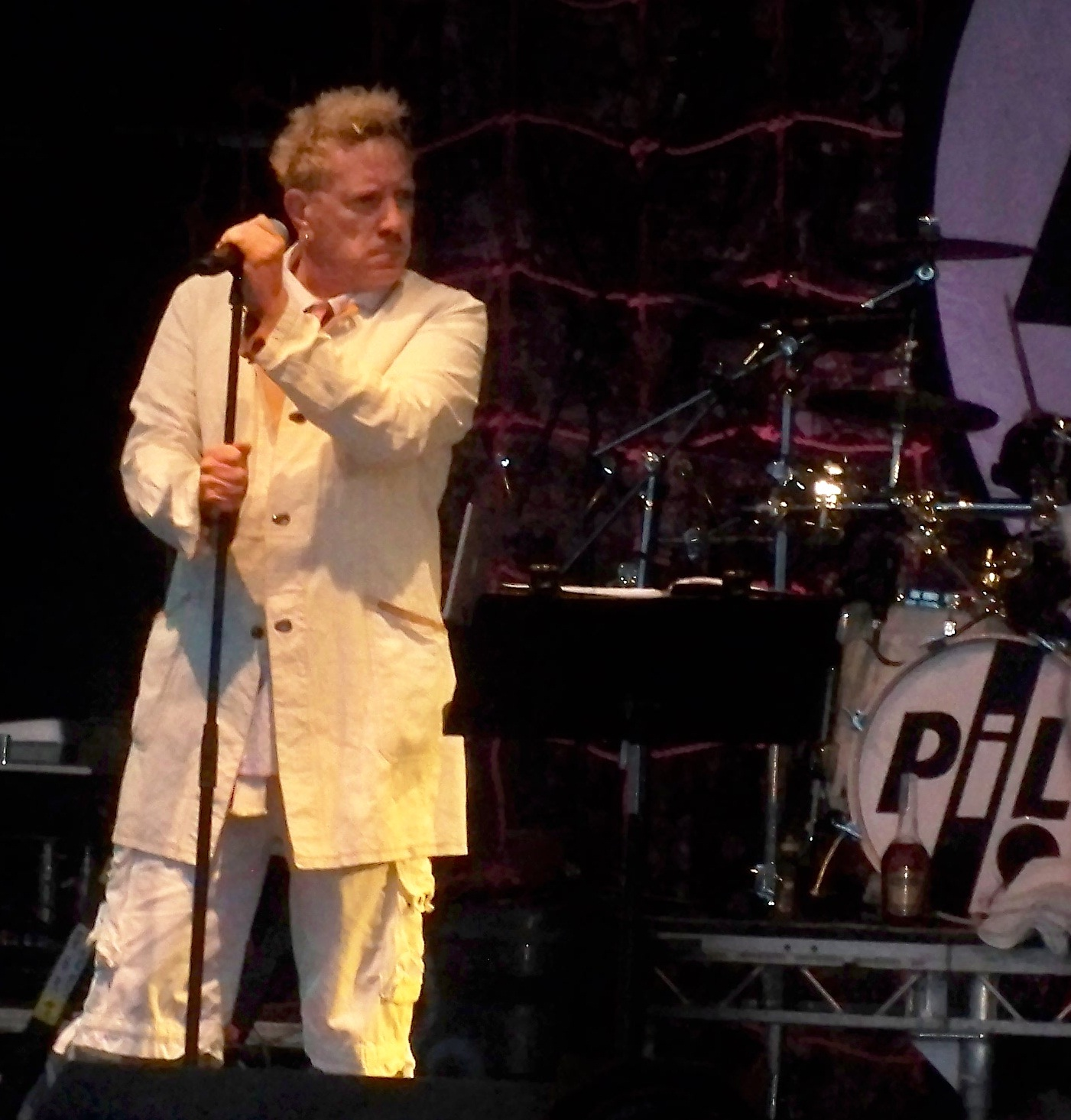 Public Image Limited playing extremely live, at Guilfest 2011.